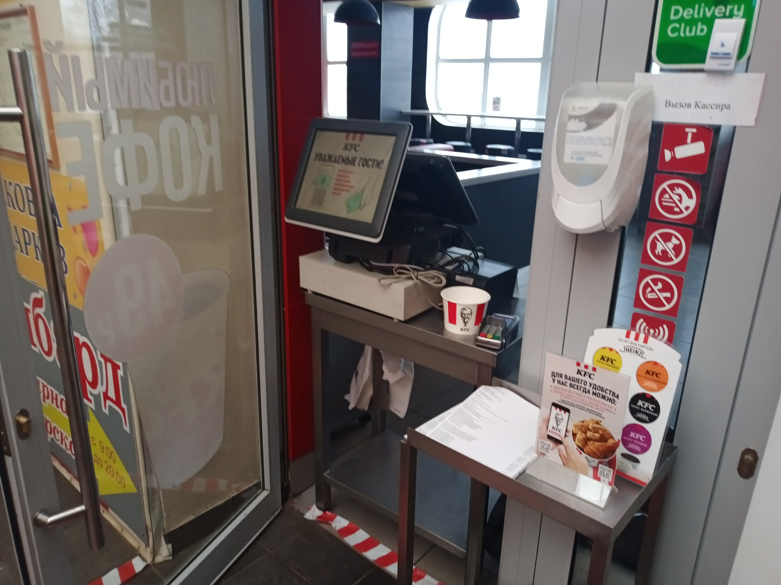 An example of a KFC restaurant in the Moscow region during the COVID-19 pandemic in a skillful format and for delivery, with the hall closed to visitors.